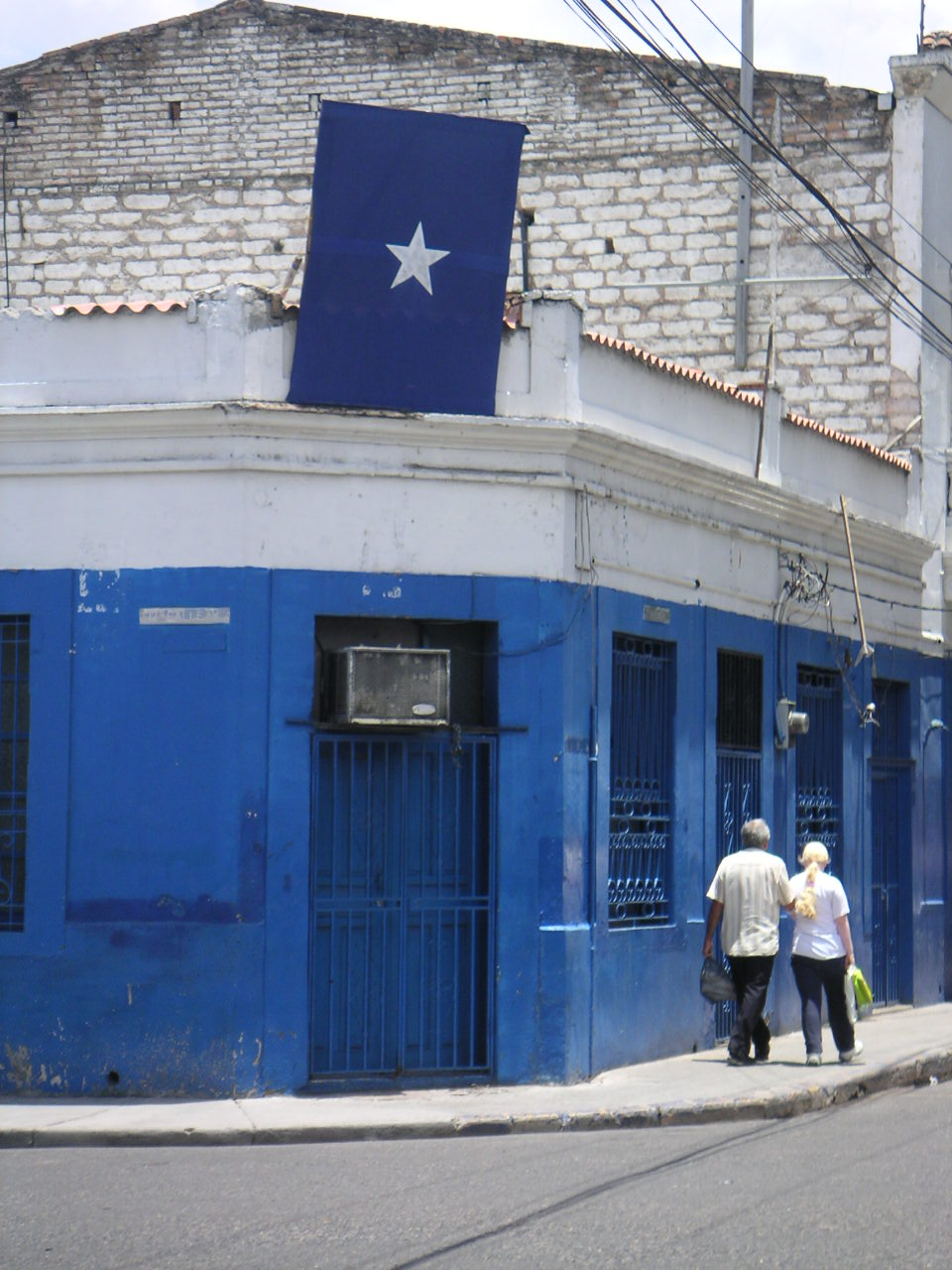 Headquarters of the National Party of Honduras, Comayagüela, Honduras.